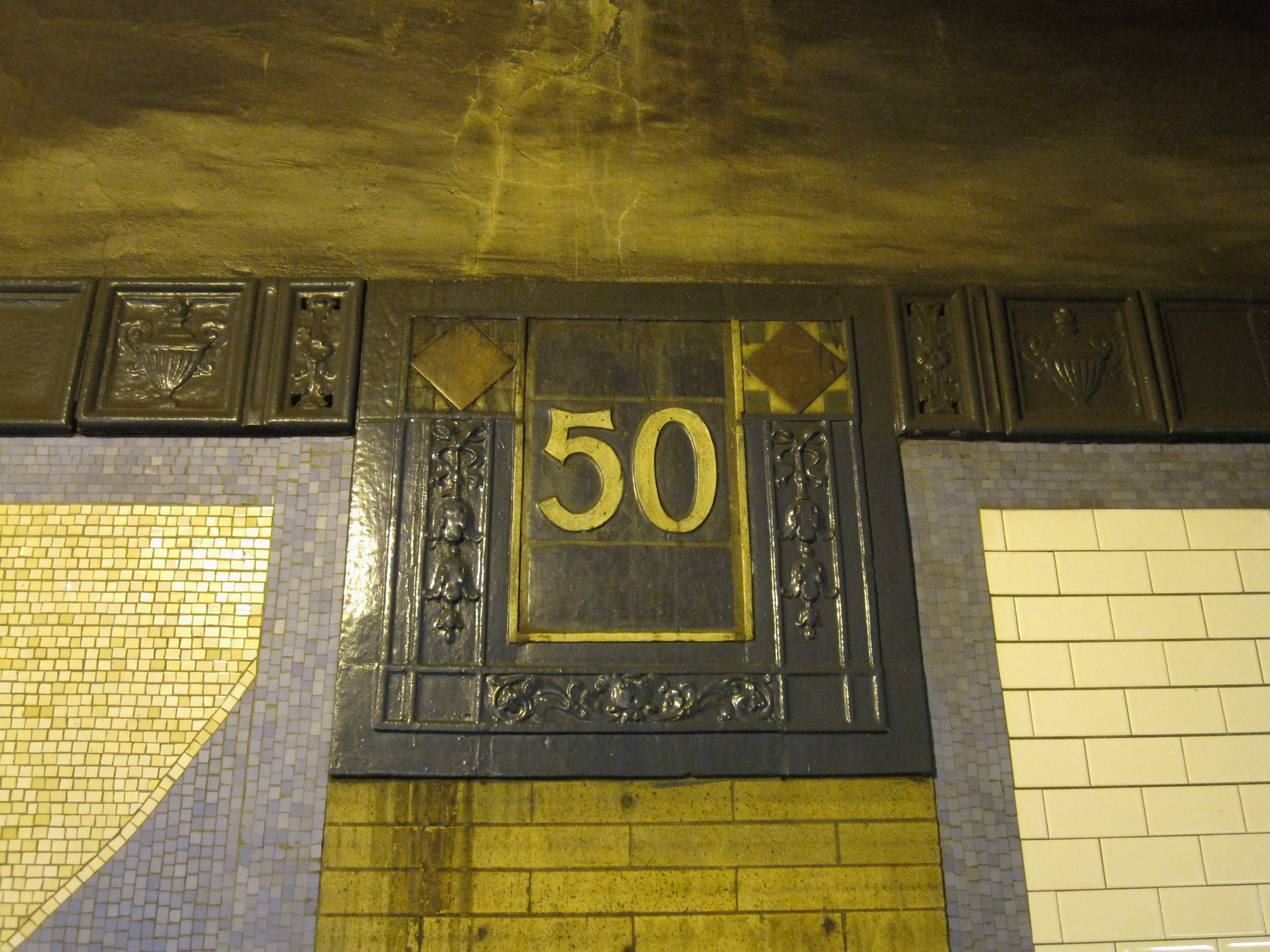 50th Street (IRT Broadway – Seventh Avenue Line)